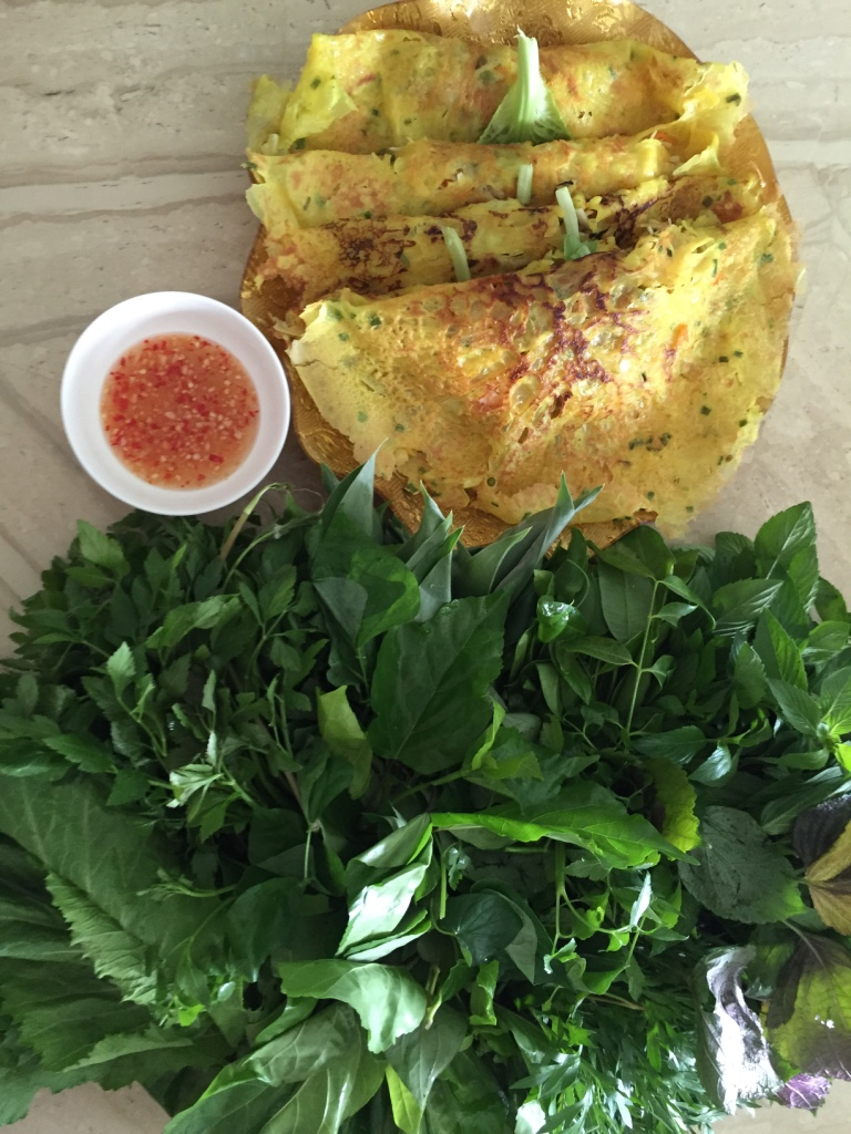 Banh xeo (bánh xèo), Vietnamese traditional pancake